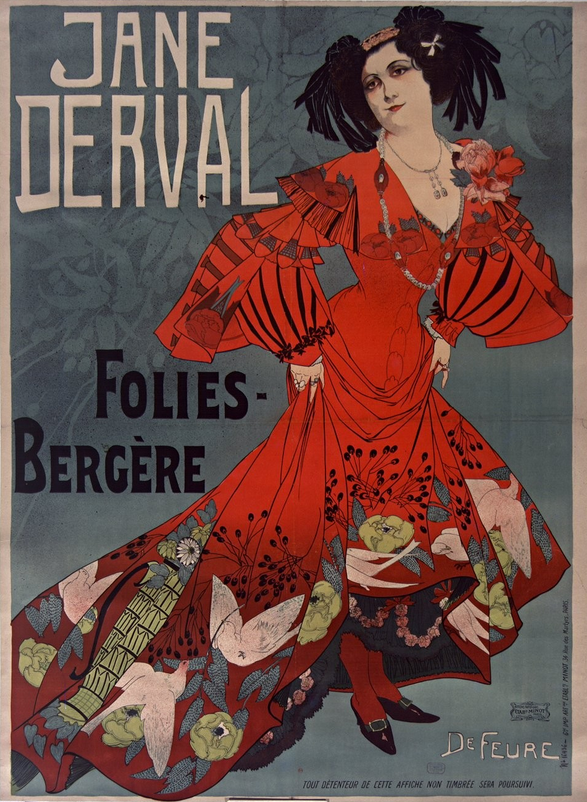 Jane Derval Folies-Bergère, lithographic poster by Georges de Feure, printed by Affiches Artistiques Etablissements (Paris). Dim. : 110 x 150 cm.